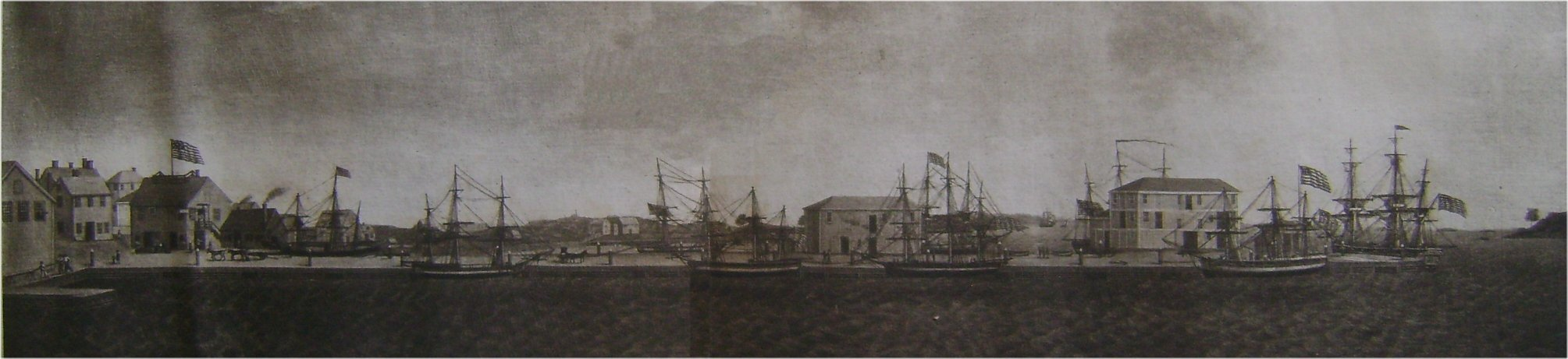 Crowninshield's Wharf in Salem 1808